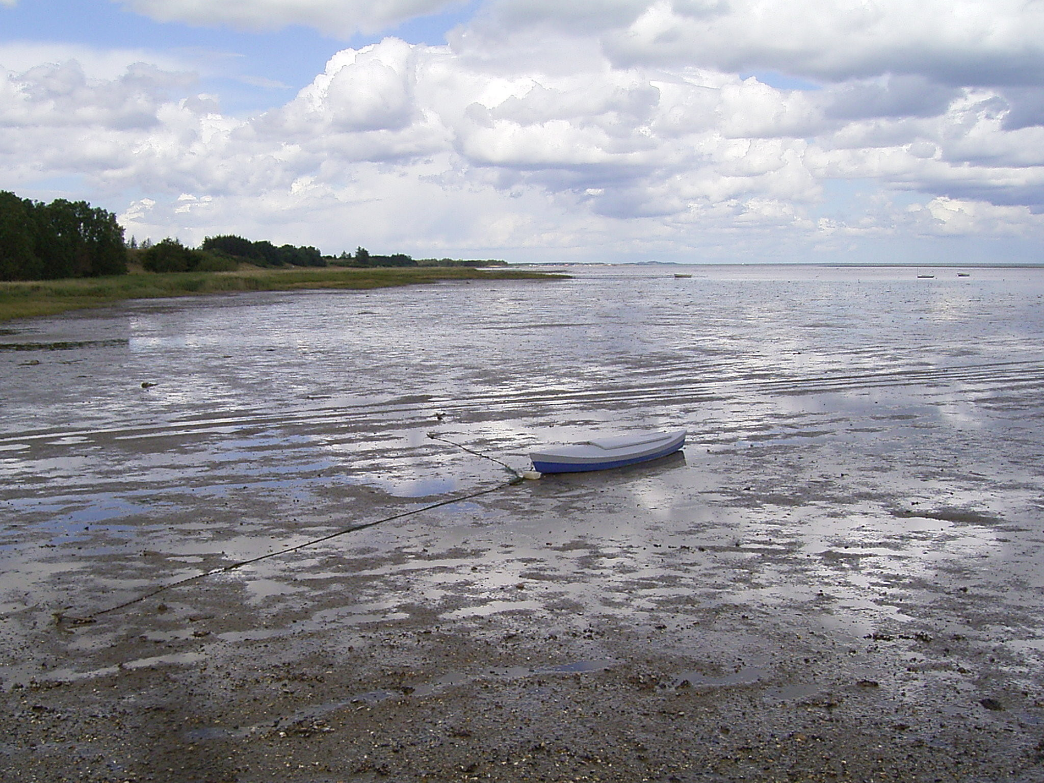 Als, a small village belonging to the Mariagerfjord Kommune